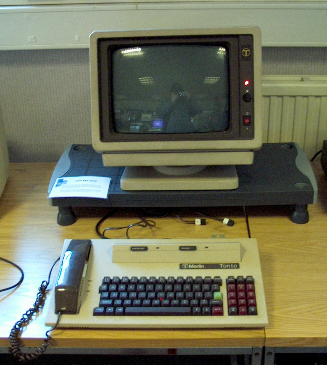 A Merlin Tonto workstation (AKA the ICL One Per Desk)